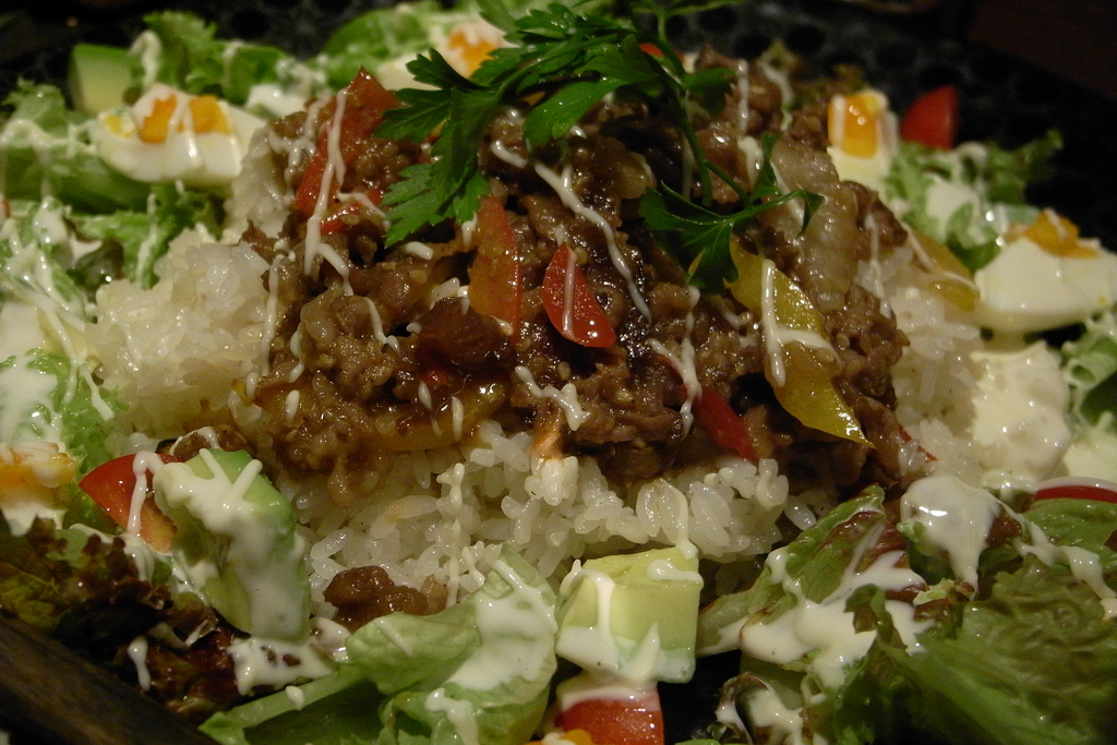 Sicilian rice(Local food of Saga, Japan).